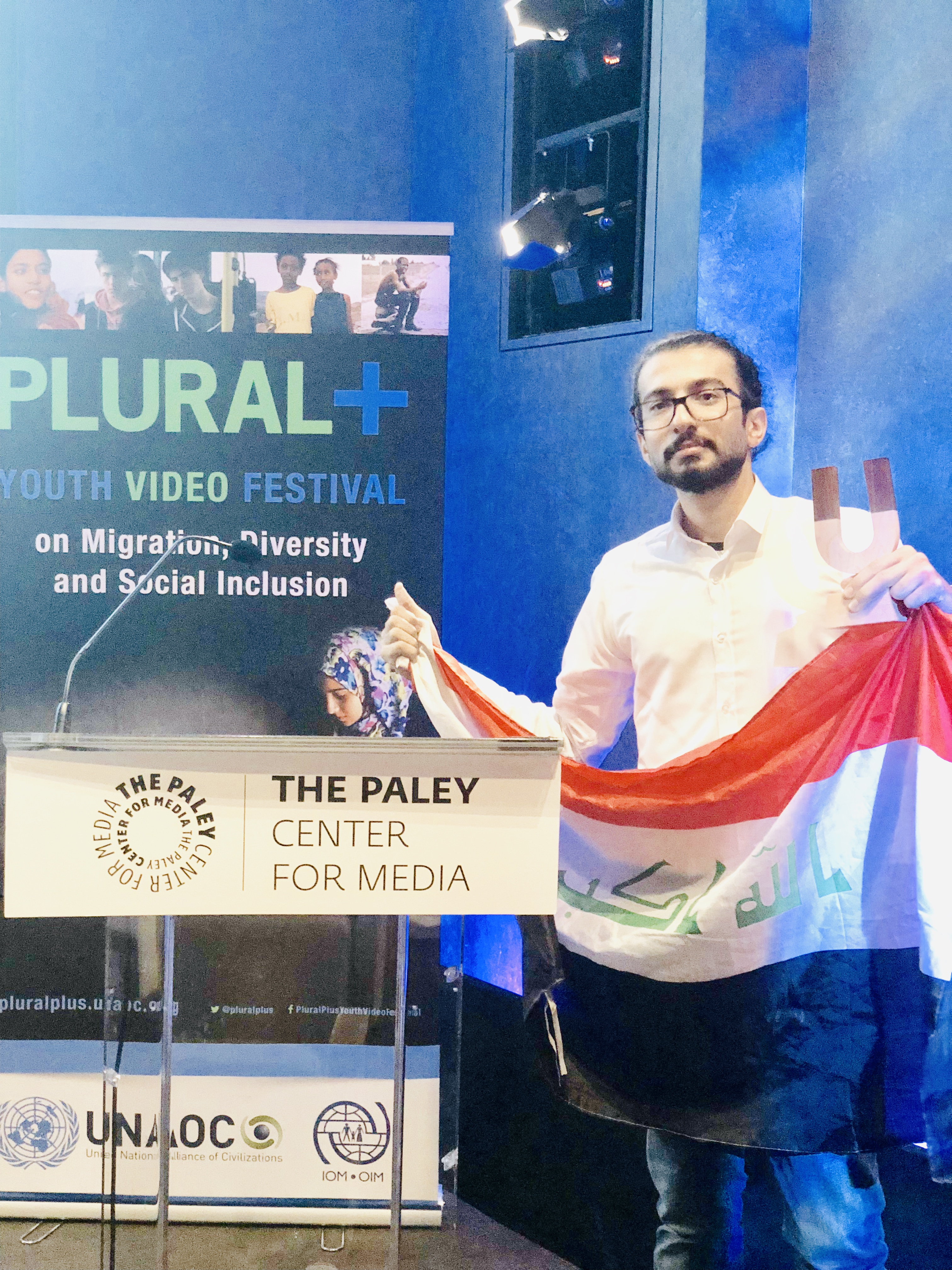 Mustapha Nader receiving the Crystal Plus Award in New York in 2018 after his film won the UN Humanitarian Film Award